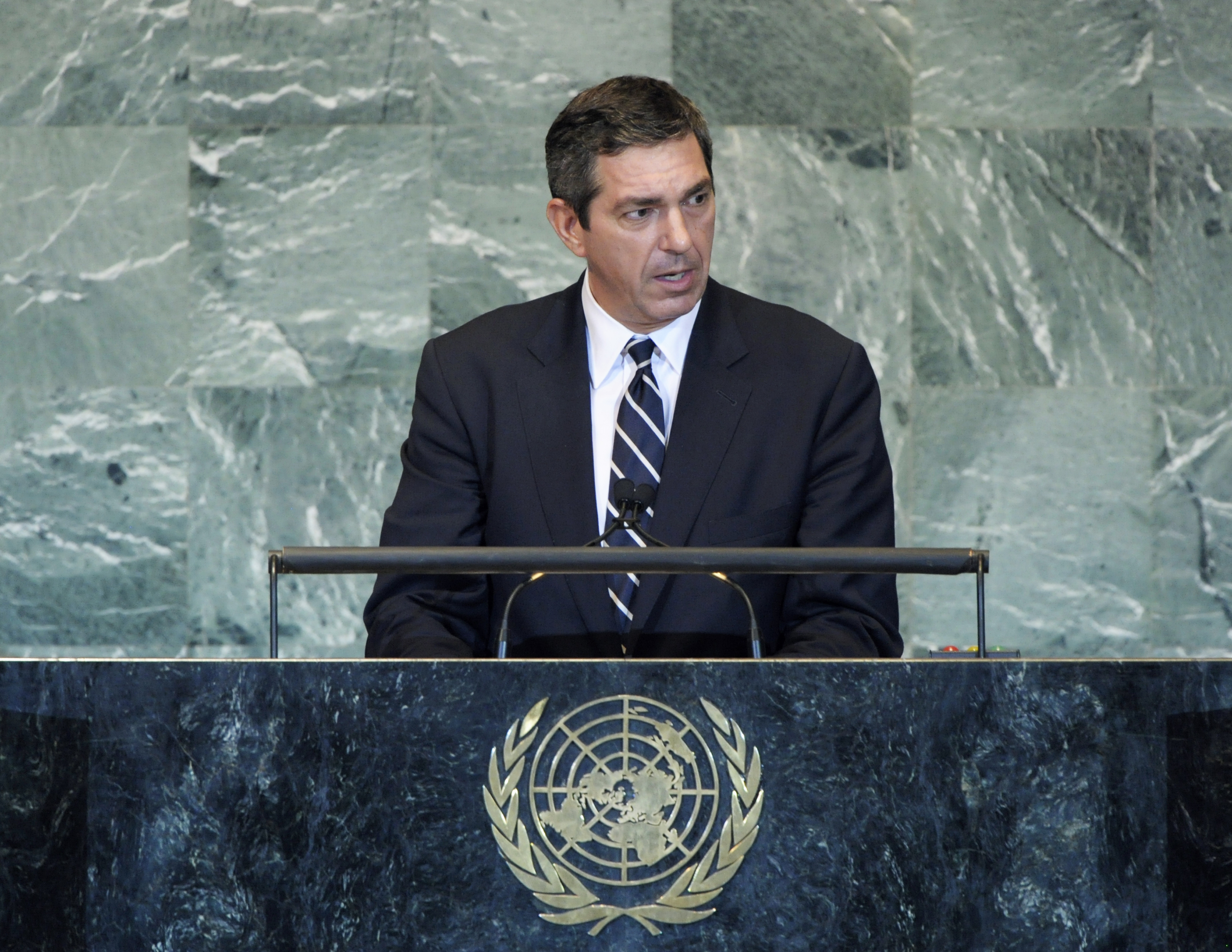 Former Greek Foreign Minister Stavros Lambrinidis at the United Nations General Assembly.